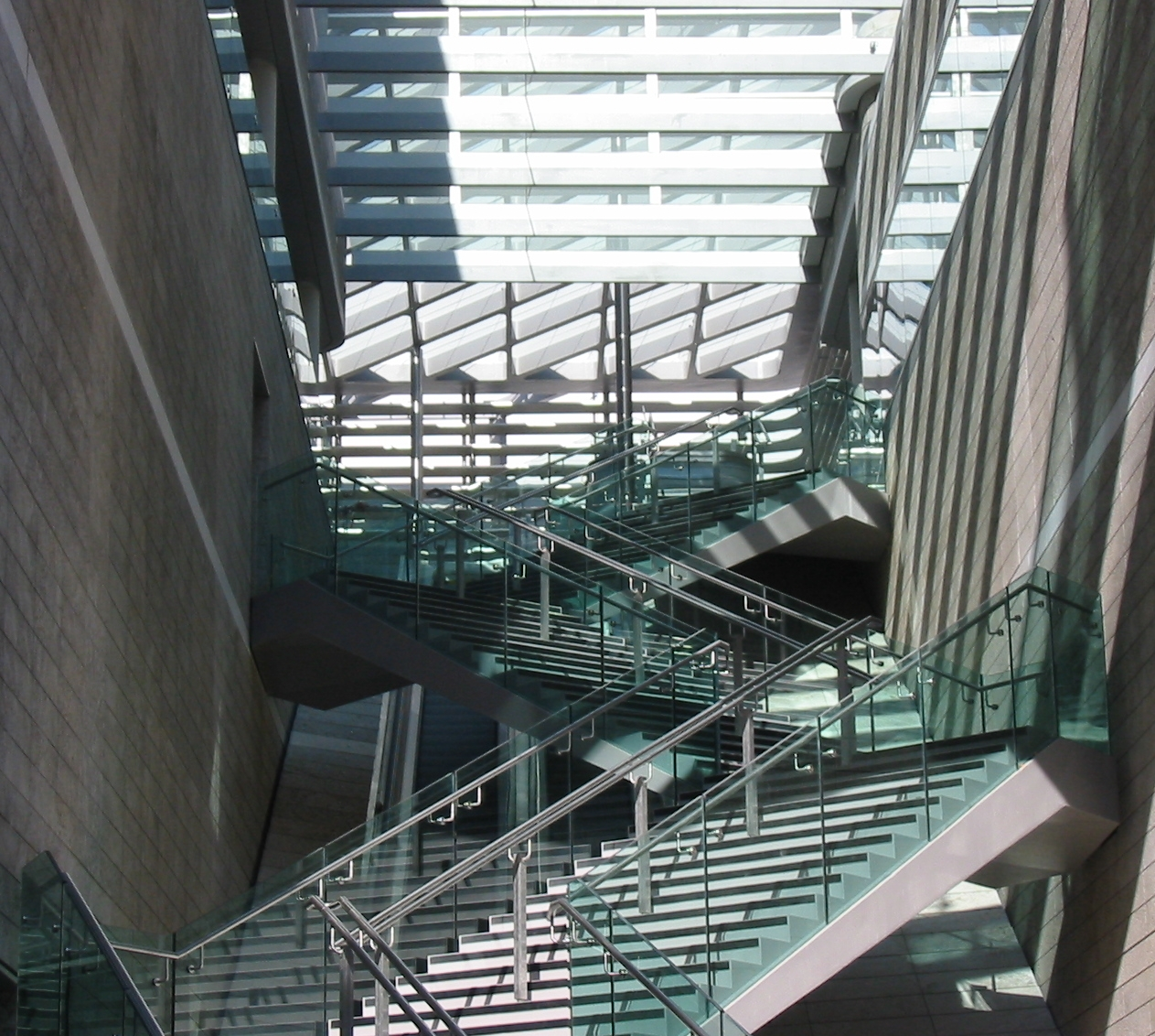 Nrf: Liverpool